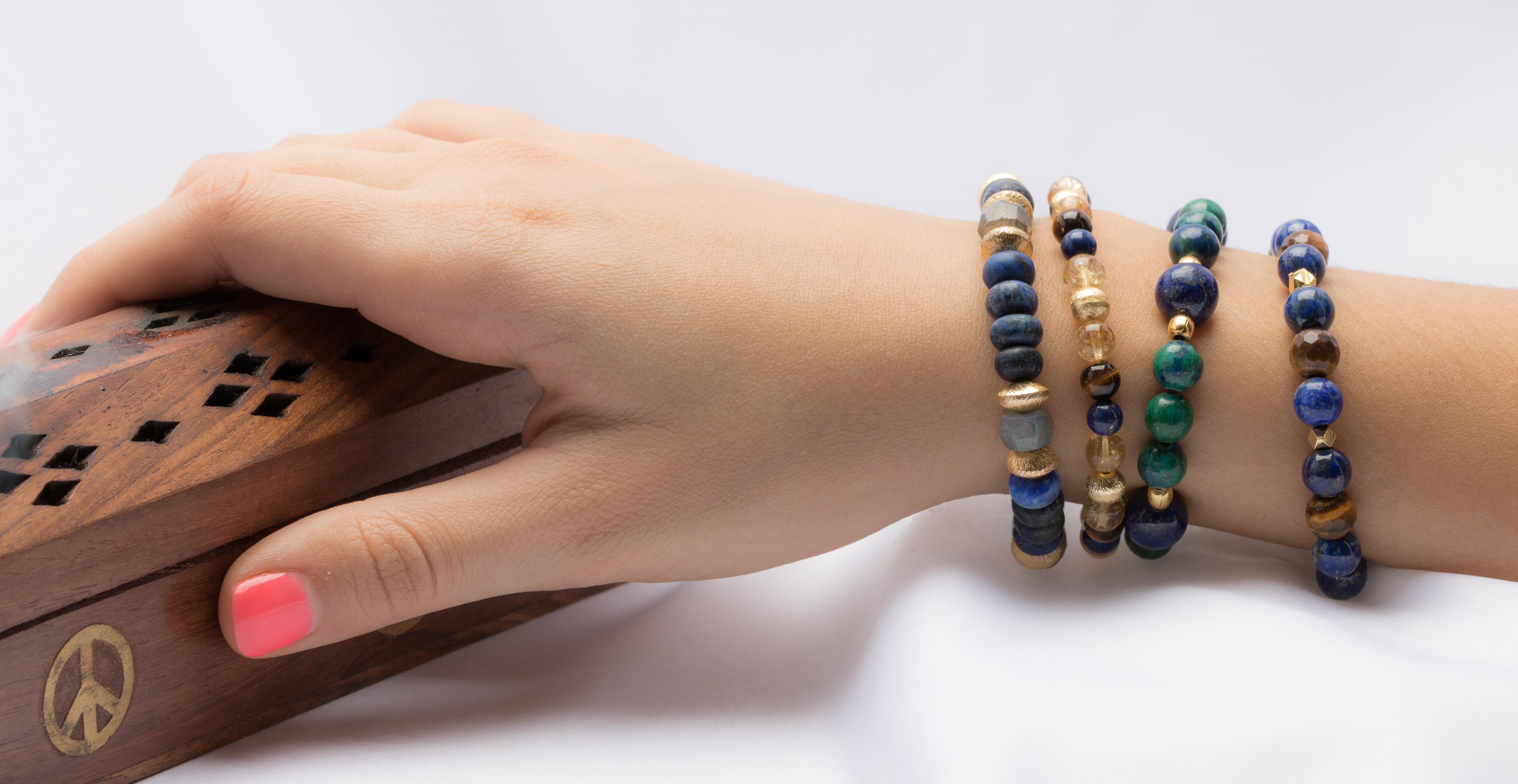 Hand with 'power stone' bracelets made of gemstones, holding a box with smoking incense.